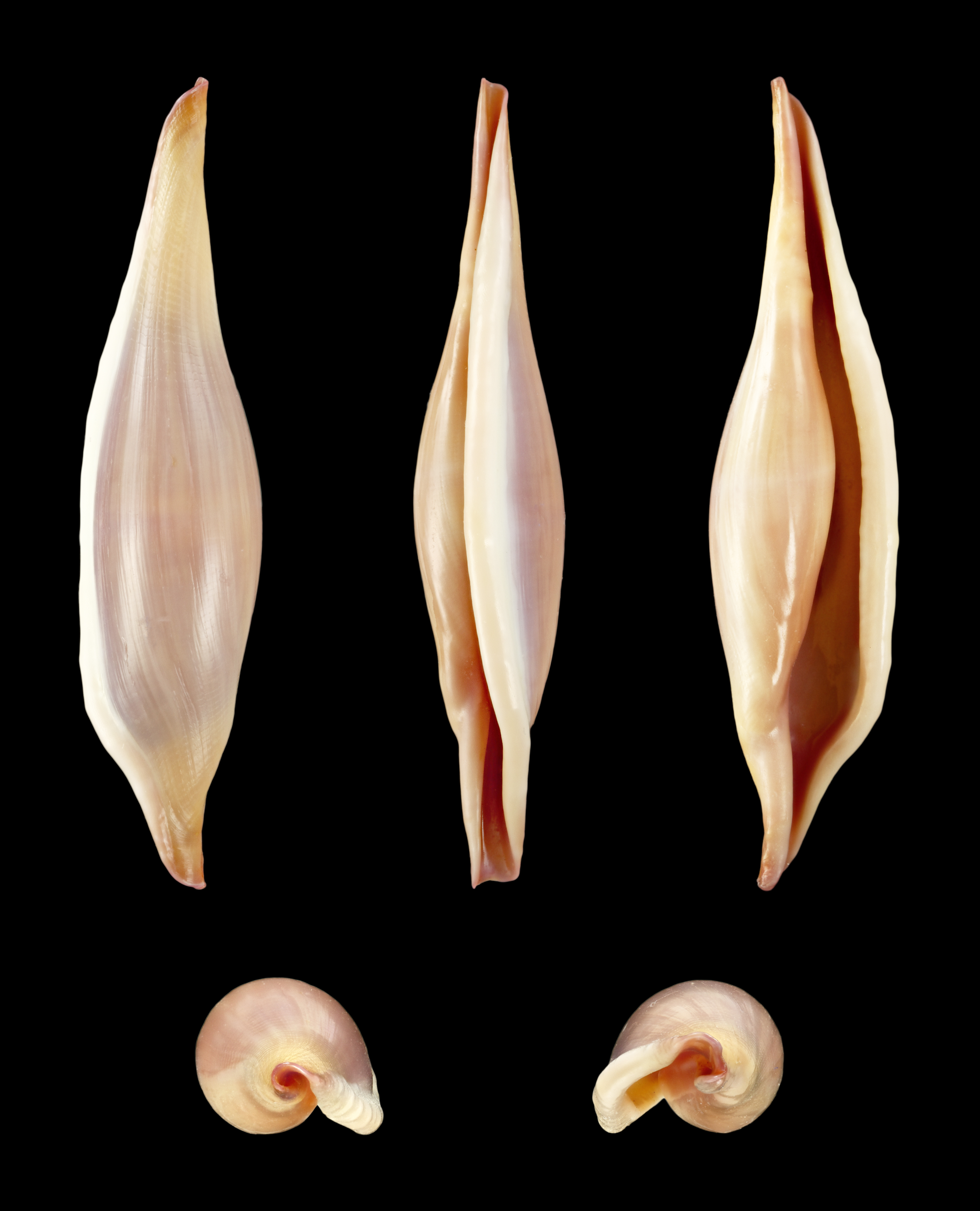 Rosy Spindle Cowry; Length 3.9 cm; Originating from the Philippines; Shell of own collection, therefore not geocoded.